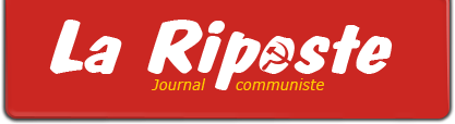 The banner of French Marxist group La Riposte.